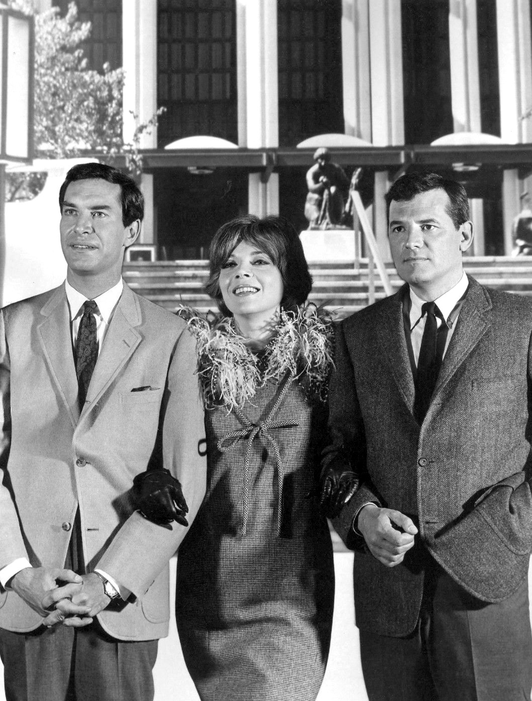 Photo of Martin Landau, Barbara Bain and Steven Hill from the television series Mission:Impossible.